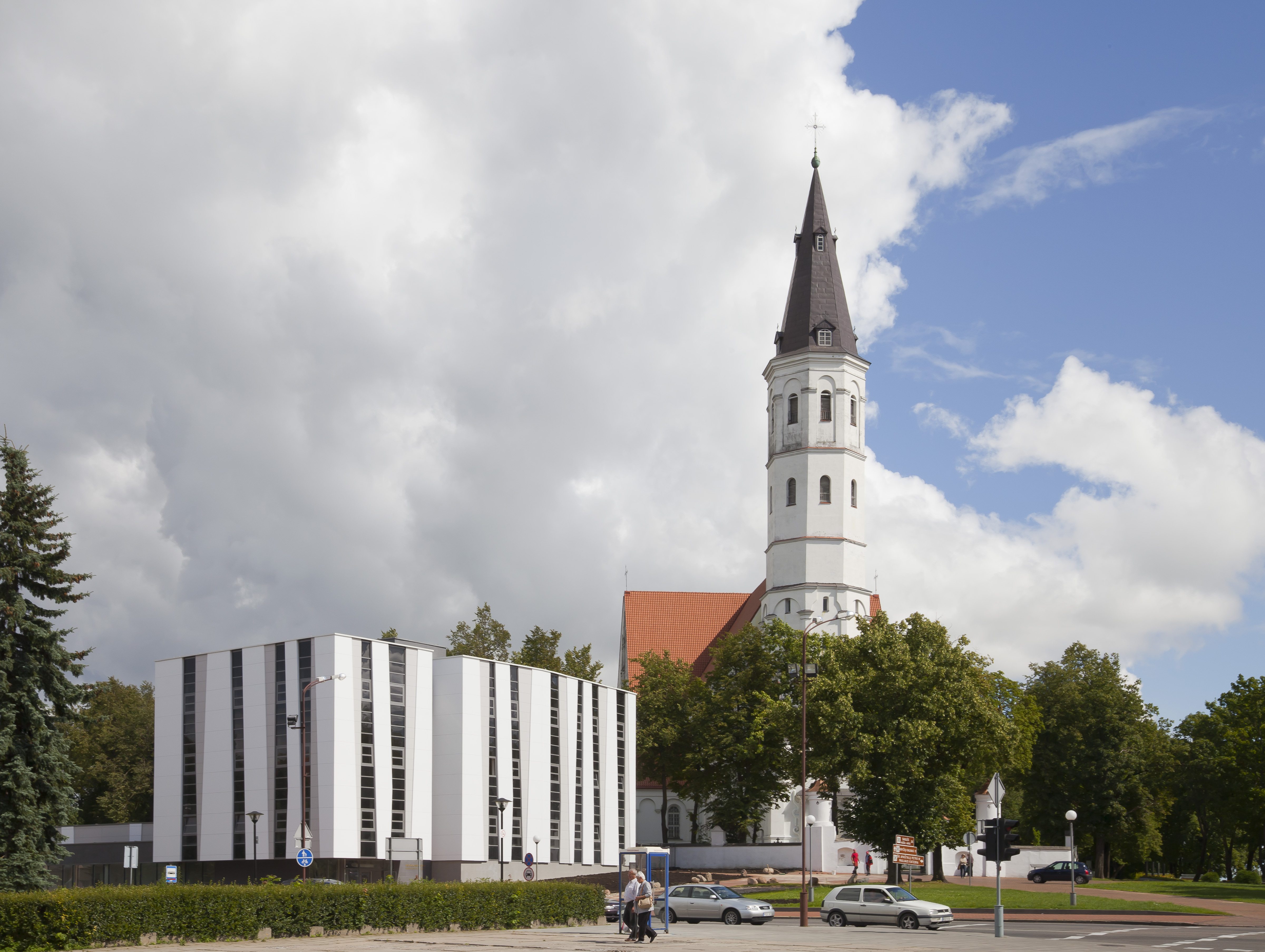 Siauliai Cathedral, Lithuania